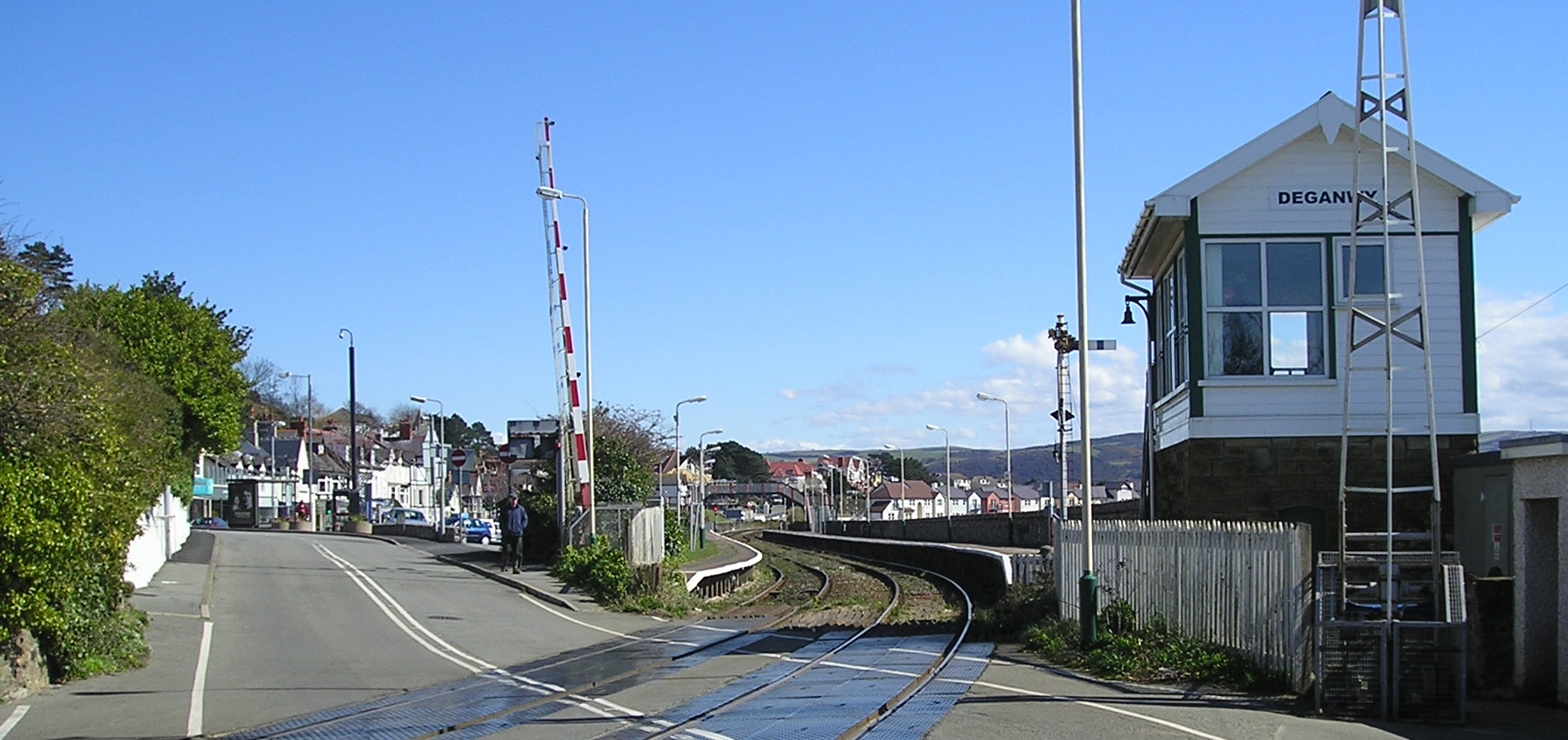 Deganwy signal box and station viewed from the level crossing.